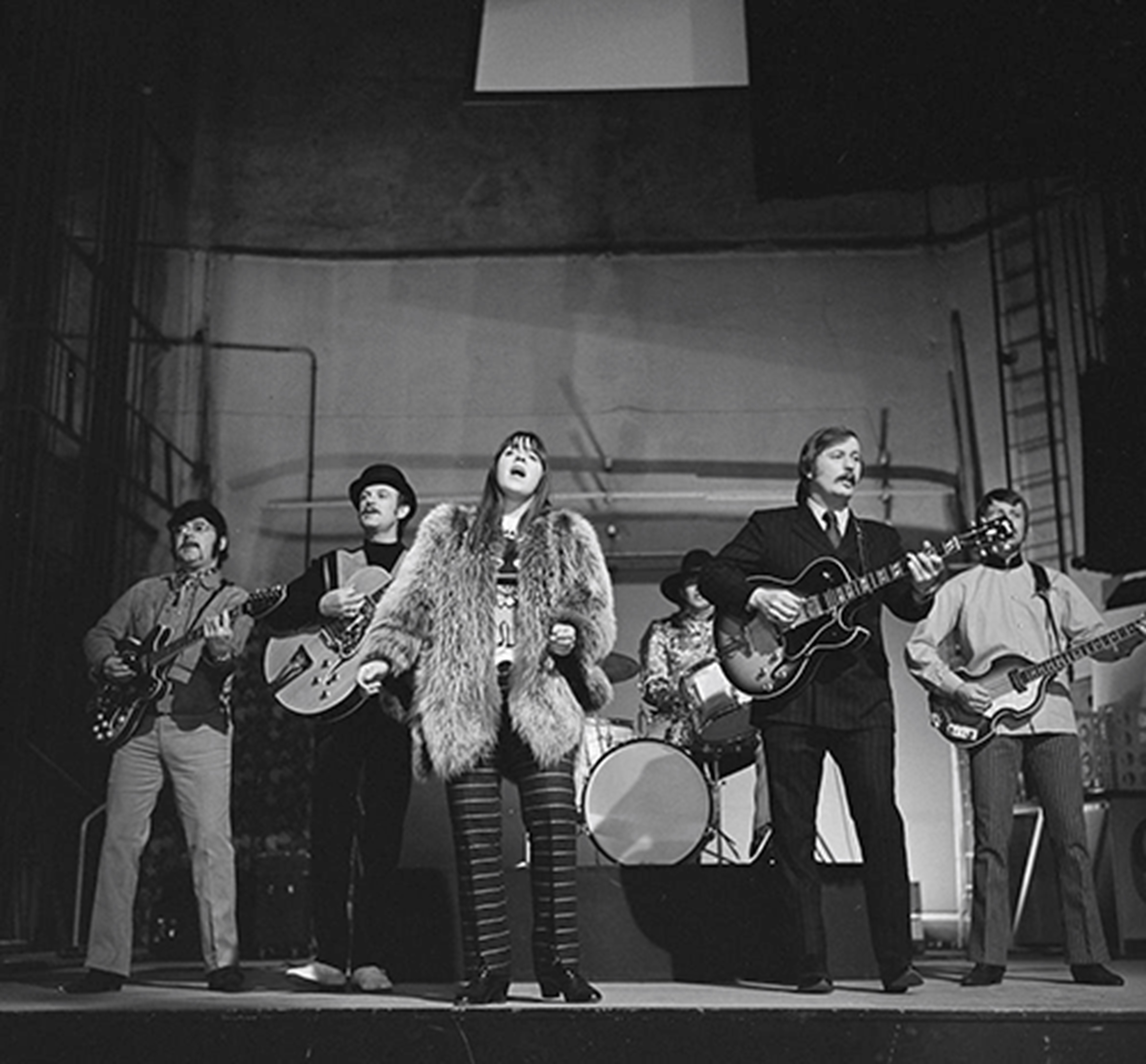 Californian musical group Spanky & Our Gang, during recordings for Dutch TV programme Fenklup, 5 April 1968